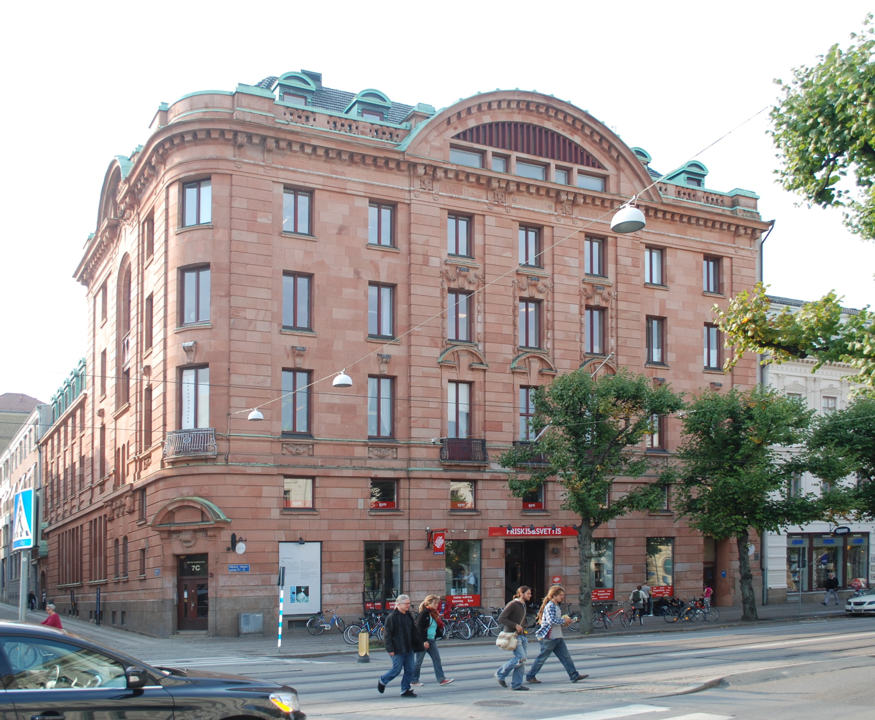 Västra hamngatan Number 7.